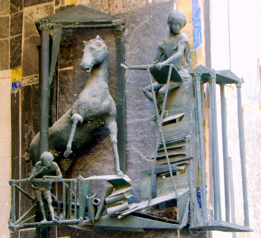 d